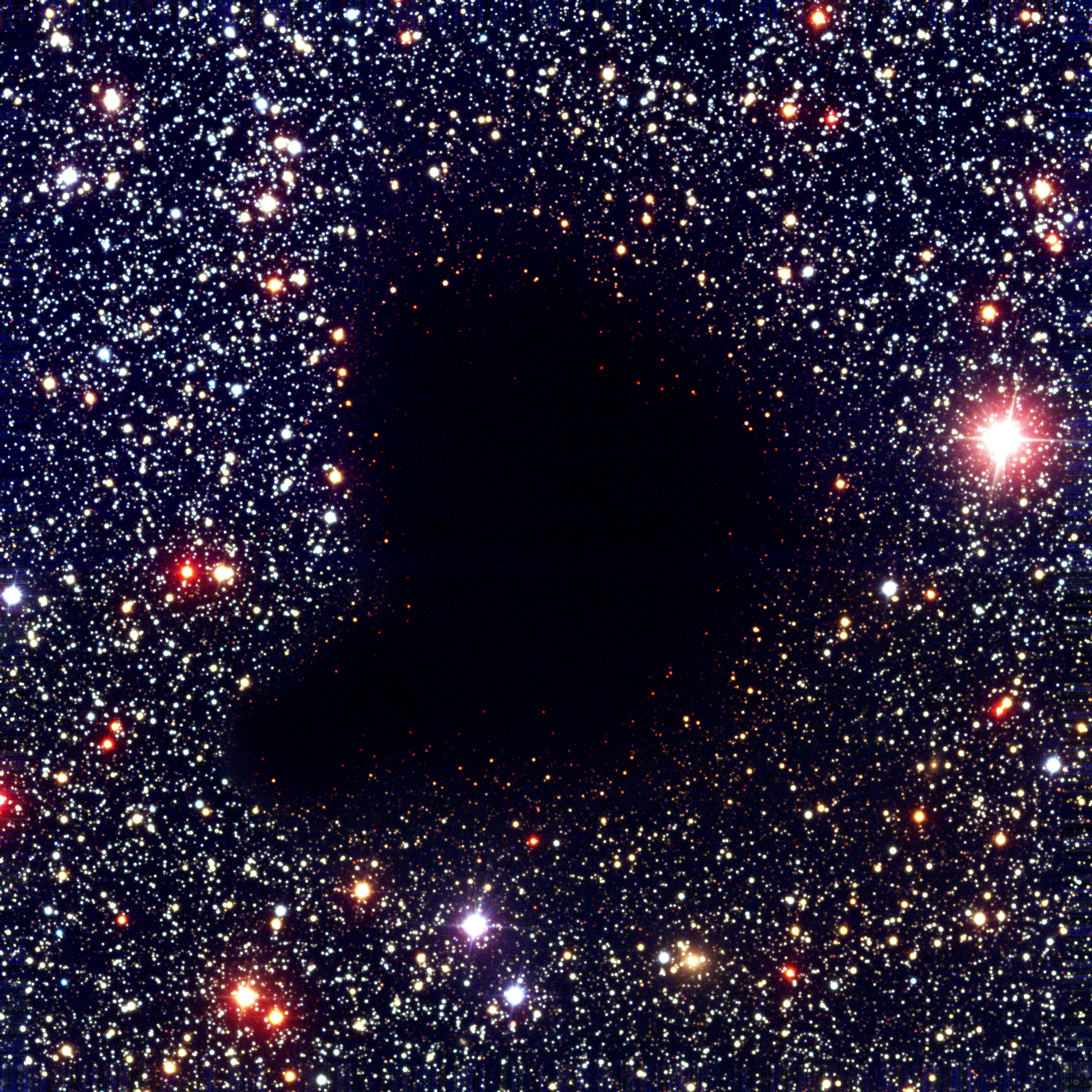 This image shows a colour composite of visible and near-infrared images of the dark cloud Barnard 68 . It was obtained with the 8.2-m VLT ANTU telescope and the multimode FORS1 instrument in March 1999. At these wavelengths, the small cloud is completely opaque because of the obscuring effect of dust particles in its interior.